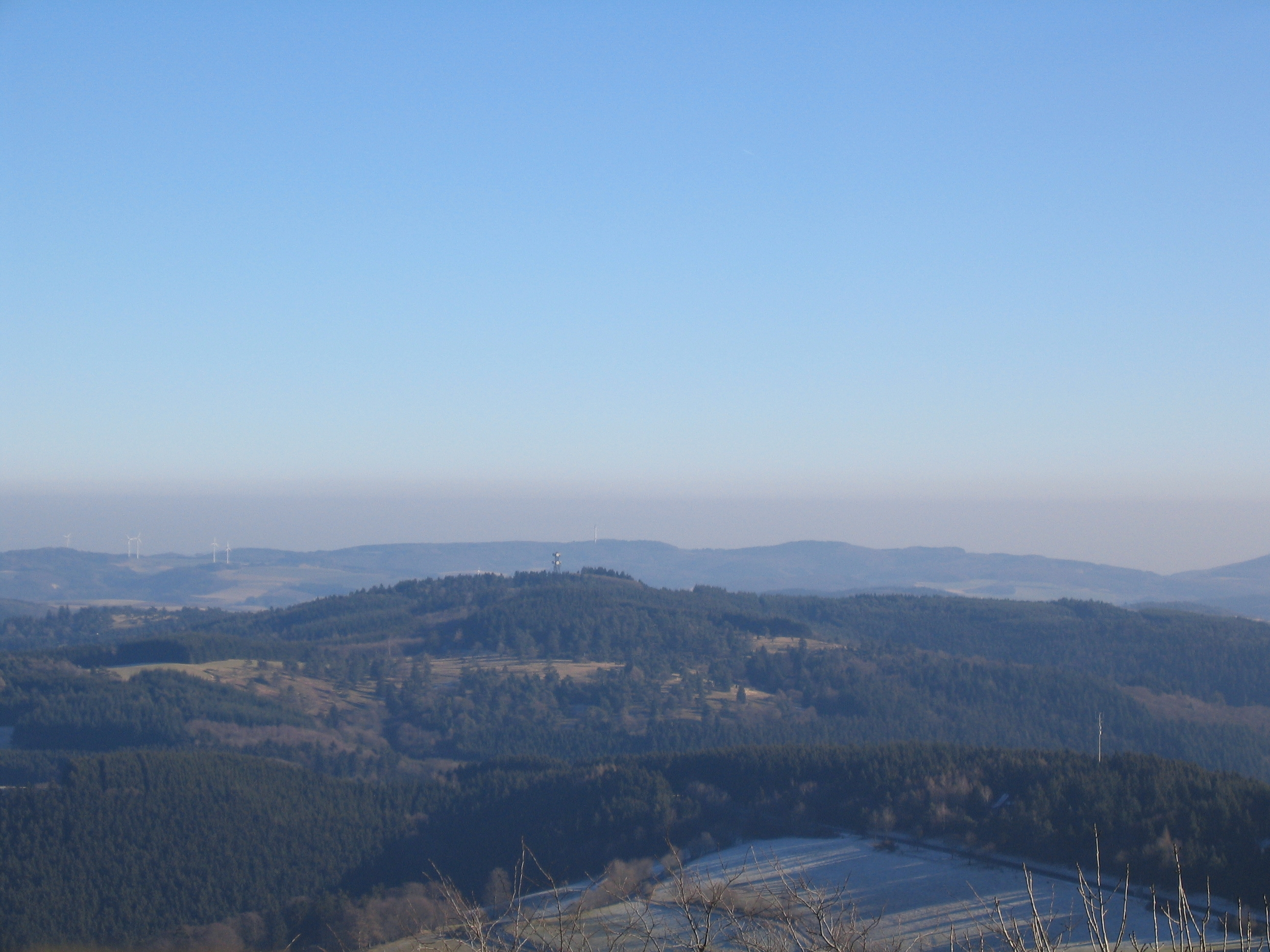 The Raßberg mountain seen from the Hohe Acht, Eifel, Germany